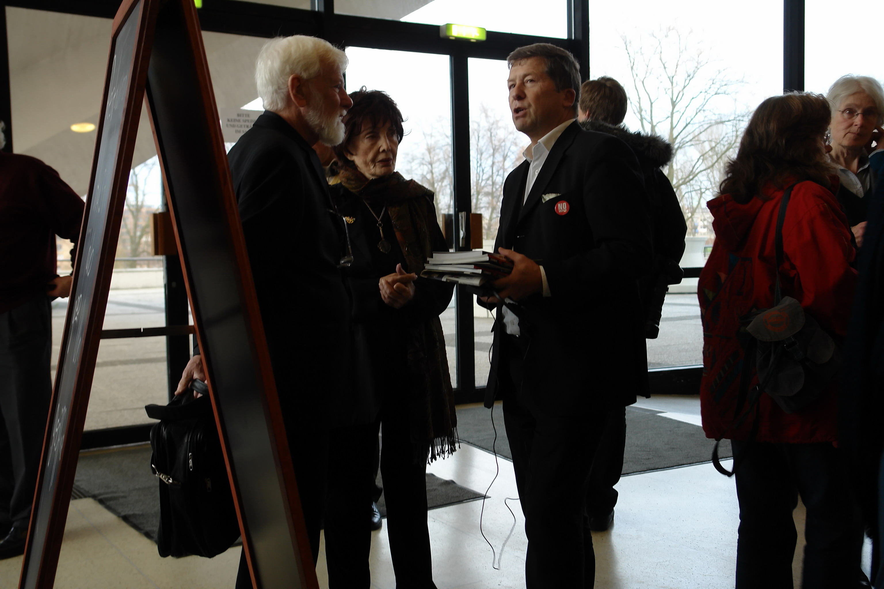 Uri & Rachel Avnery with Florian Pfaff (Prizewinner 2006)